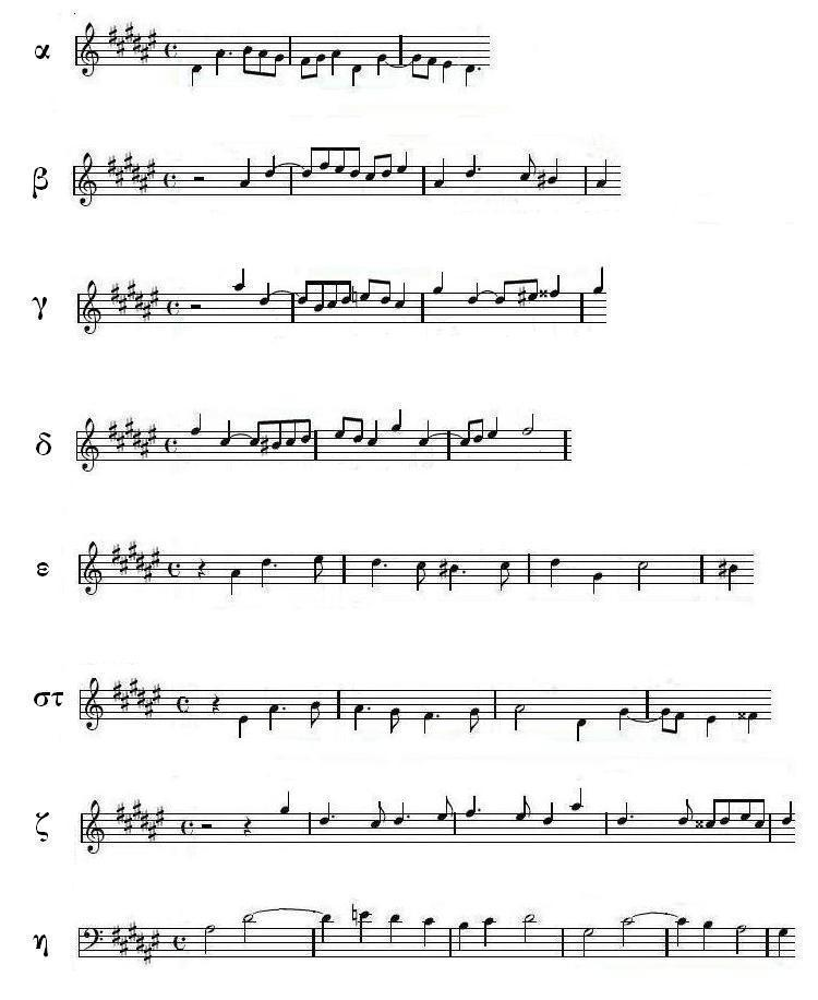 Thema of Fuga No8